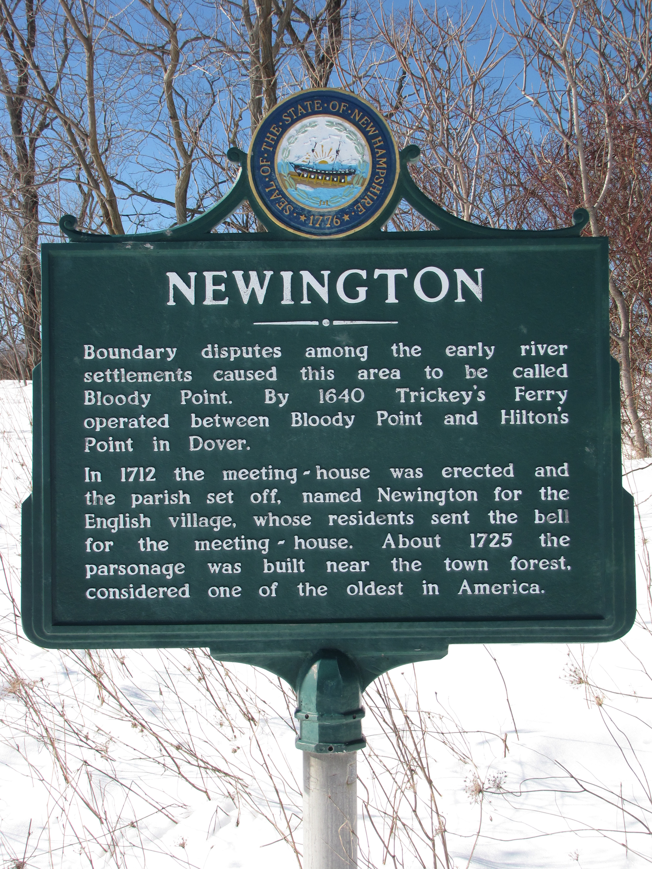 Picture of Historical Marker, Newington, New Hampshire